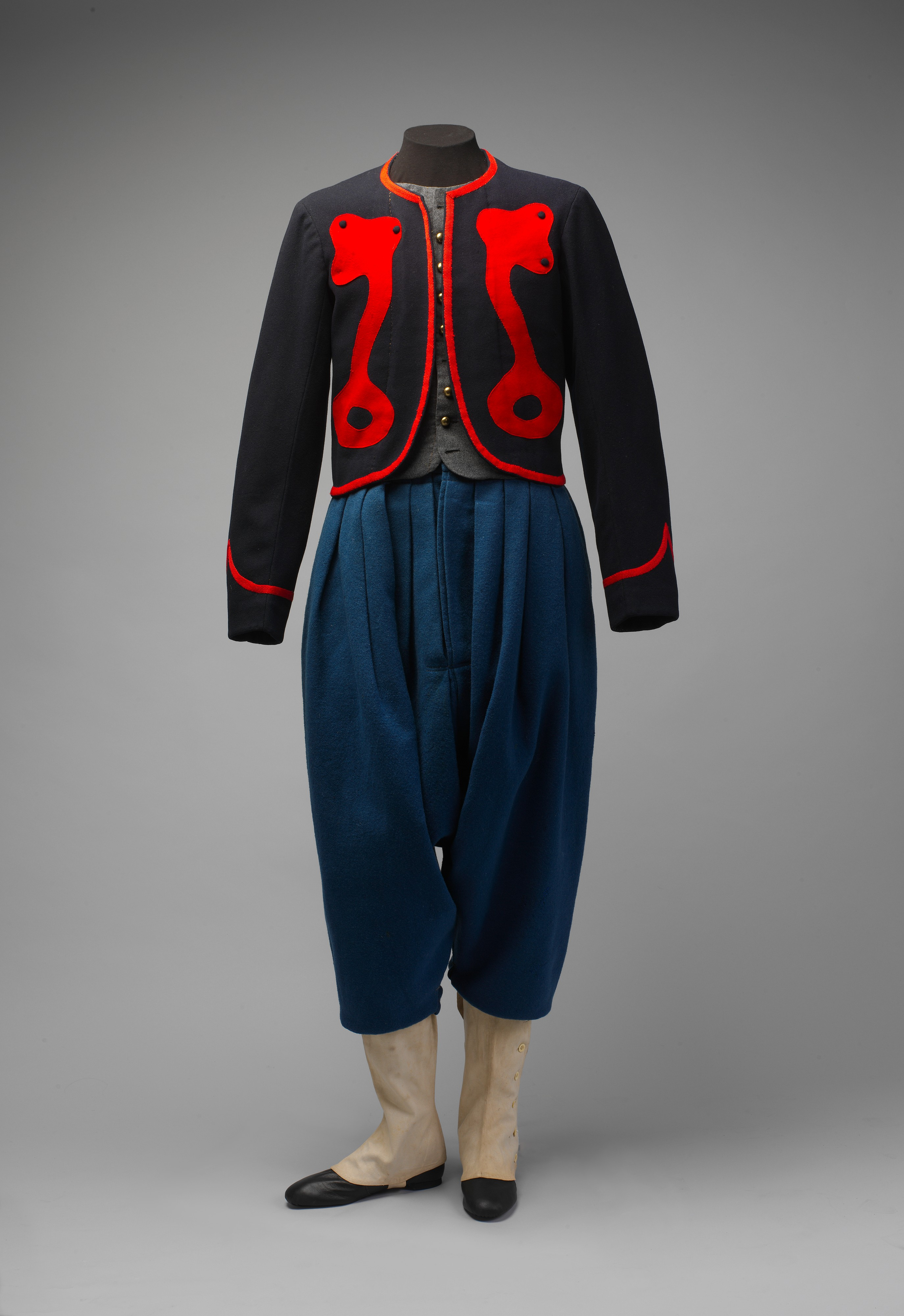 The Algerian Zouave uniform was adopted by French soldiers in North Africa in the 1830s and later inspired the dress of American militia and volunteer units during the Civil War. This near-complete uniform of the Keystone Zouaves, manufactured at the Schuylkill Arsenal in Pennsylvania, consists of an appliquéd jacket with a false vest, full-cut pants with ties at the waist and cuff, a pair of brown leather jambieres, or shin guards, and white cotton leggings, all characteristic elements of the Zouave style. This example was worn by Private Jediah K. Burnham, who joined the Keystone Zoaves, Company A of the 76th Regiment, Pennsylvania Volunteer Infantry, in 1863. Among the uniforms in the Museum's collection, this ensemble best represents a military style that precipitated a wider civilian fashion trend. The Zouave uniform was popularly cited in details of women's tailored attire as well as children's clothes from the 1860s onward.